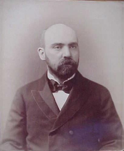 US politician David B. Hill